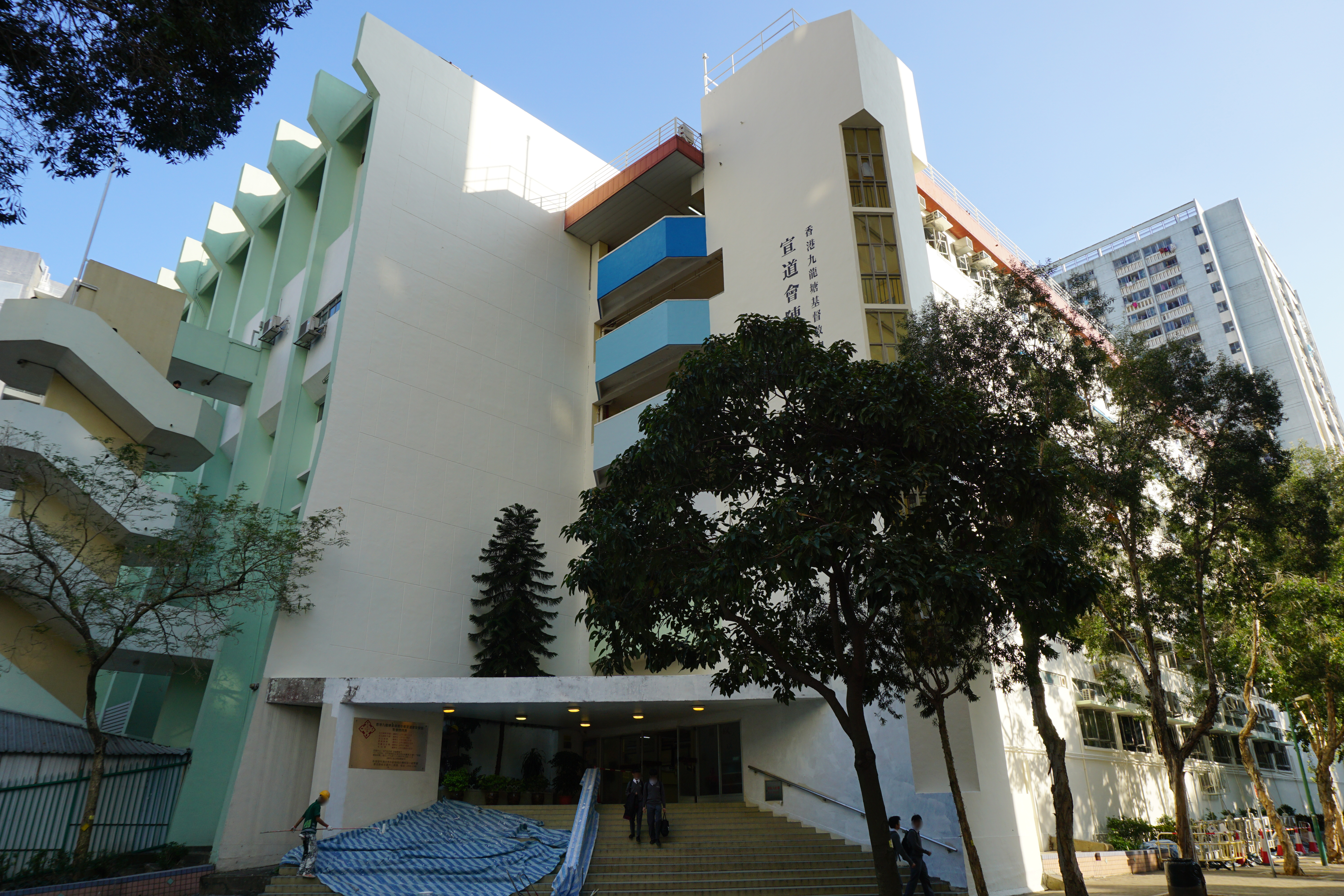 Christian Alliance S C Chan Memorial College in Tuen Mun, Hong Kong.